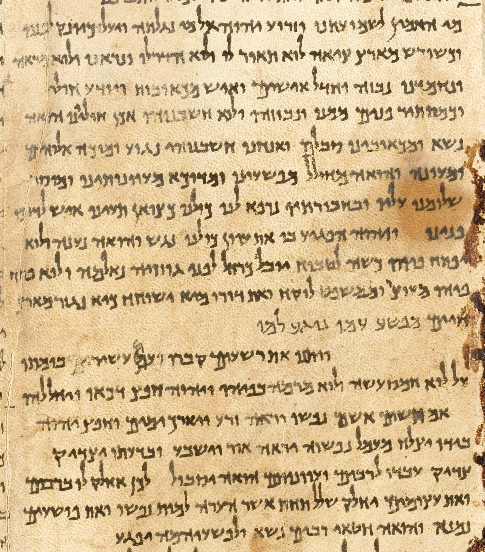 Portion of a photographic reproduction of the Great Isaiah Scroll, the best preserved of the biblical scrolls found at Qumran. It contains the entire Book of Isaiah in Hebrew, apart from some small damaged parts. This manuscript was probably written by a scribe of the Jewish sect of the Essenes around the second century BC. It is therefore over a 1000 years older than the oldest Masoretic manuscripts. This picture shows all of Isaiah 53 (and is mostly identical to the Masoretic version).